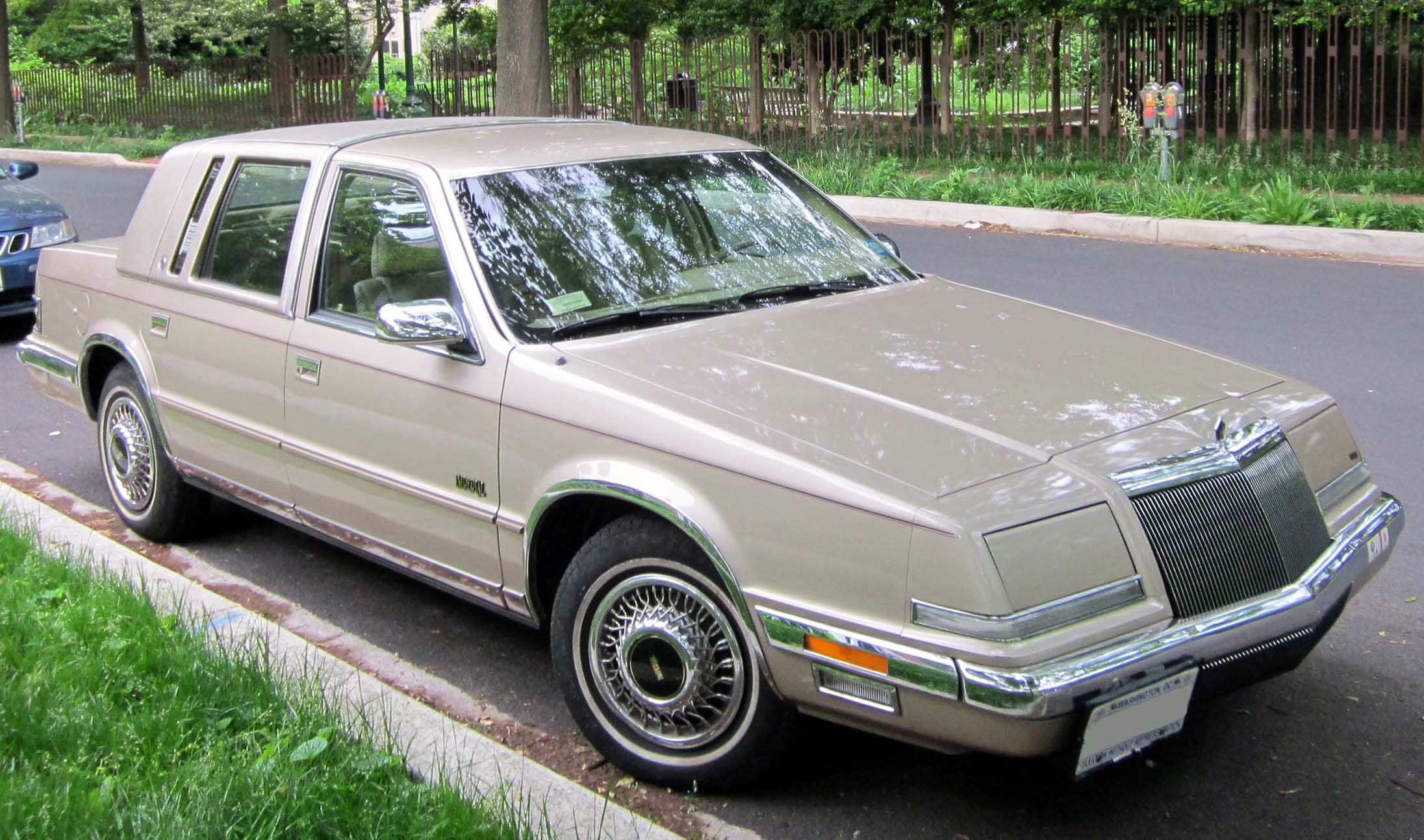 1990-1993 Chrysler Imperial photographed in Washington, D.C., USA.